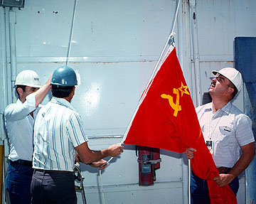 Nevada Test Site - Area 19. As a symbol of international good faith and cooperation, the Soviet Union flag is raised to the top of the emplacement tower to be flown beside the U.S. flag for the Touchstone Kearsarge test on Pahute Mesa. The Joint Verification Experiment brought Soviet scientists and technicians to the Test Site for most of 1988. Kearsarge was detonated at 10 a.m., August 17, 1988.